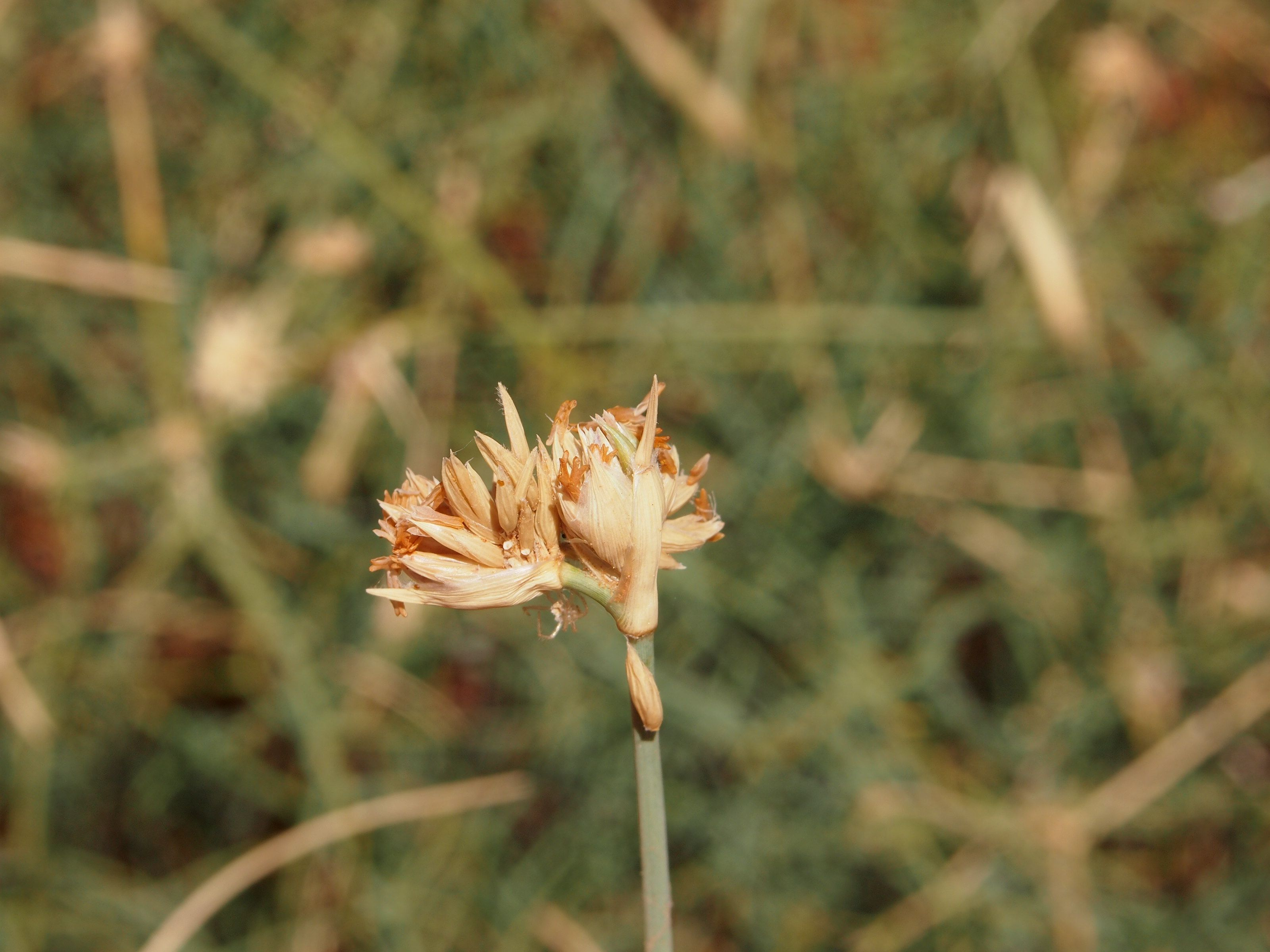 Zygochloa paradoxa seeds